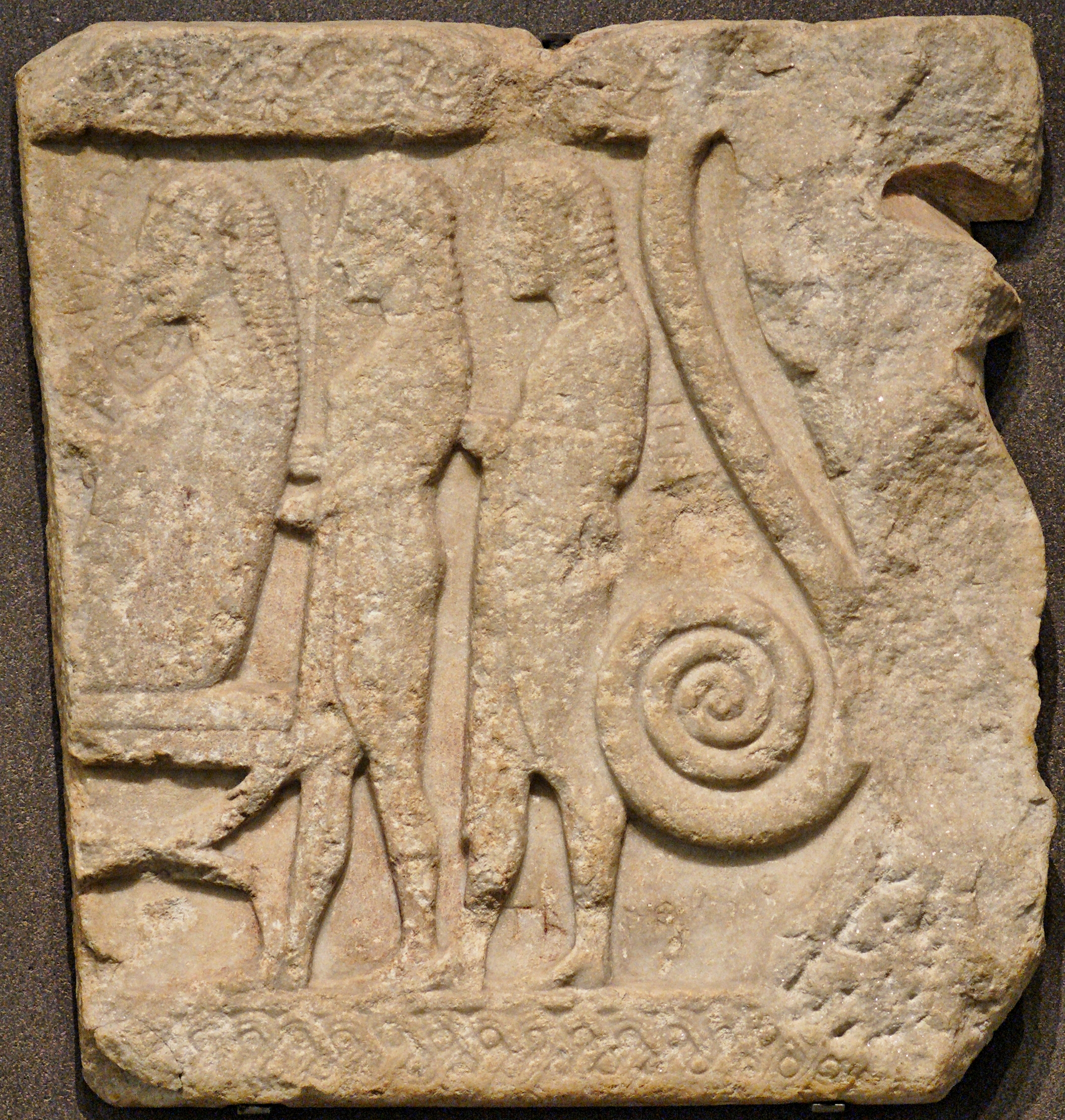 From left to right, Agamemnon, Talthybios and Epeios, identified by inscriptions in Ionian script ("Agamemnon" is written in retrograde script). Fragment of a relief, maybe the armrest from the throne of a cult statue. May represent Agamemnon's initiation to the Samothracean mystery cult. Marble, Greek archaic artwork, ca. 560 BC. From Samothrace.